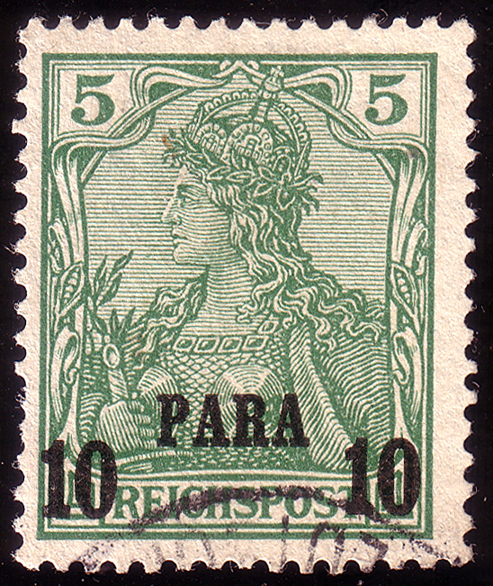 Postage stamp of German offices in Ottoman empire, 10 paras, 1900